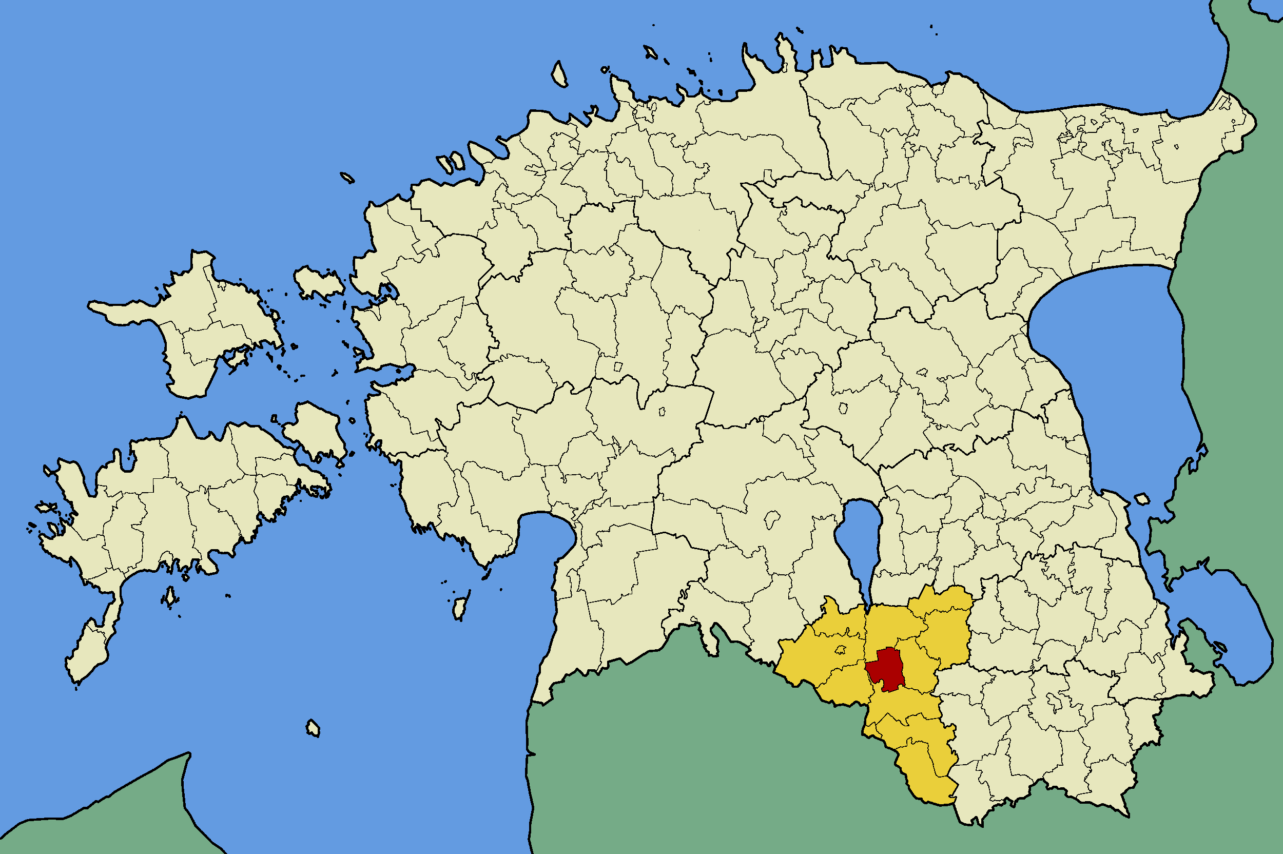 Map of Estonia with borders of municipalities (parishes). Valga county and Õru municipality emphasized.